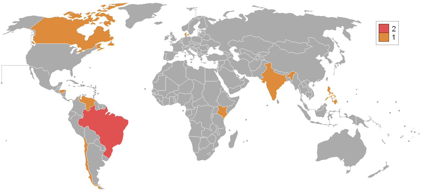 Miss Earth Map